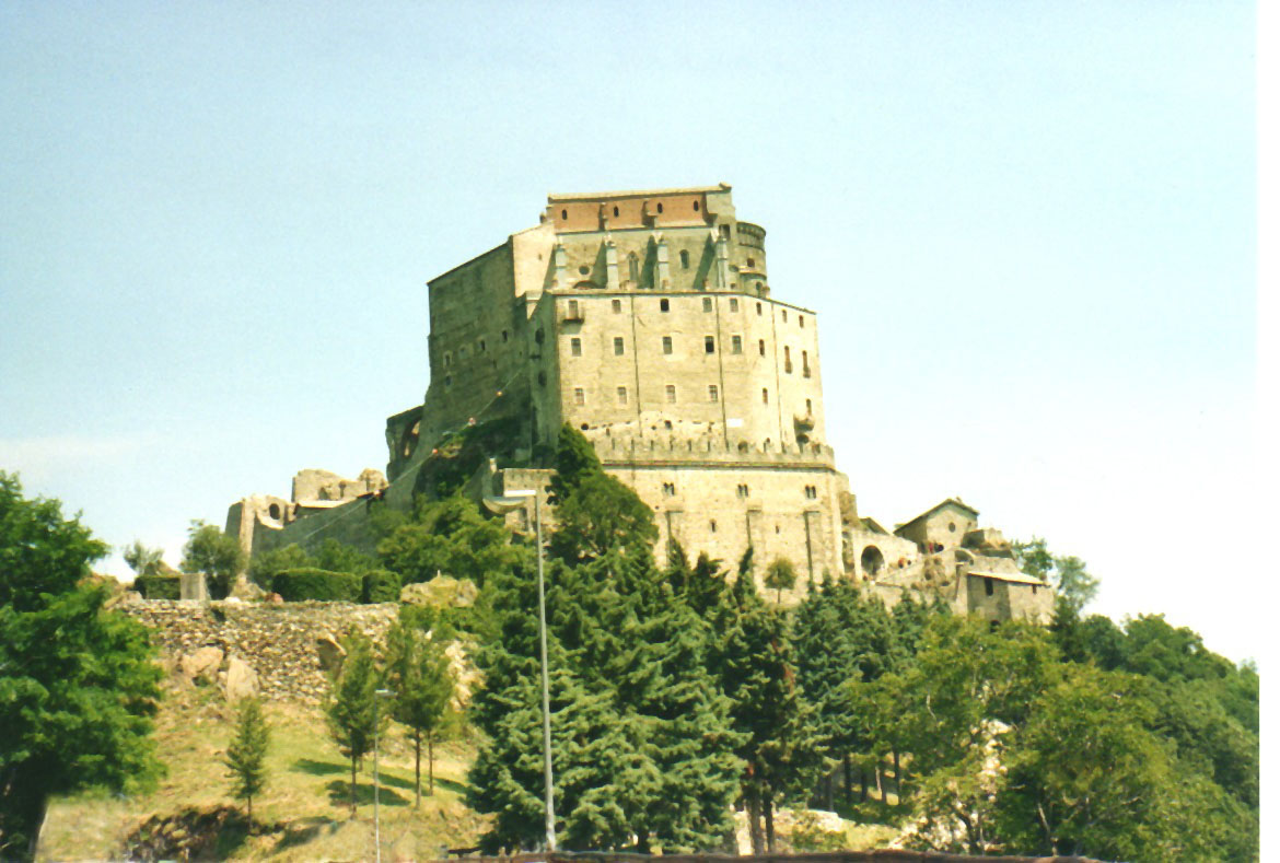 Author Giorces. PD. Sacra di S. Michele.